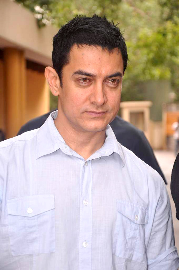 Aamir Khan From The NDTV Greenathon at Yash Raj Studios